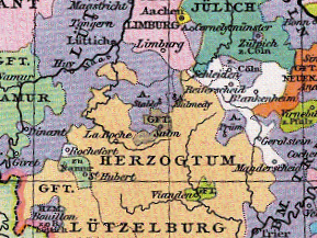 County of Niedersalm around 1400